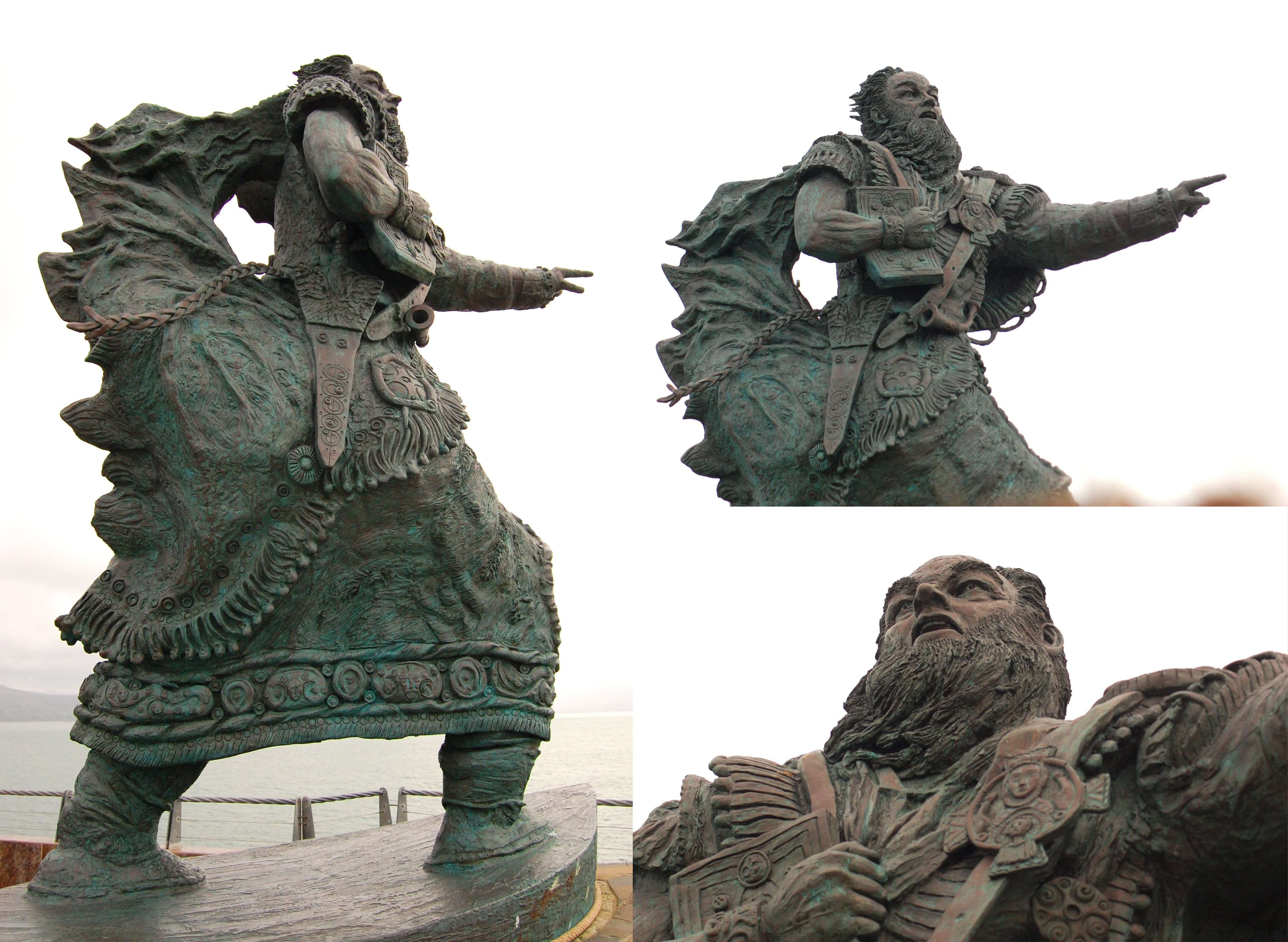 The statue is 12 feet tall and is placed at Great Samphire Rock in Fenit Harbour, Tralee. Brendan is pointing West to the mouth of Tralee Bay and the Atlantic Ocean, one knee bent and the other foot pushed back, bracing his body against "a force 10 gale" which blows his cloak out behind him.